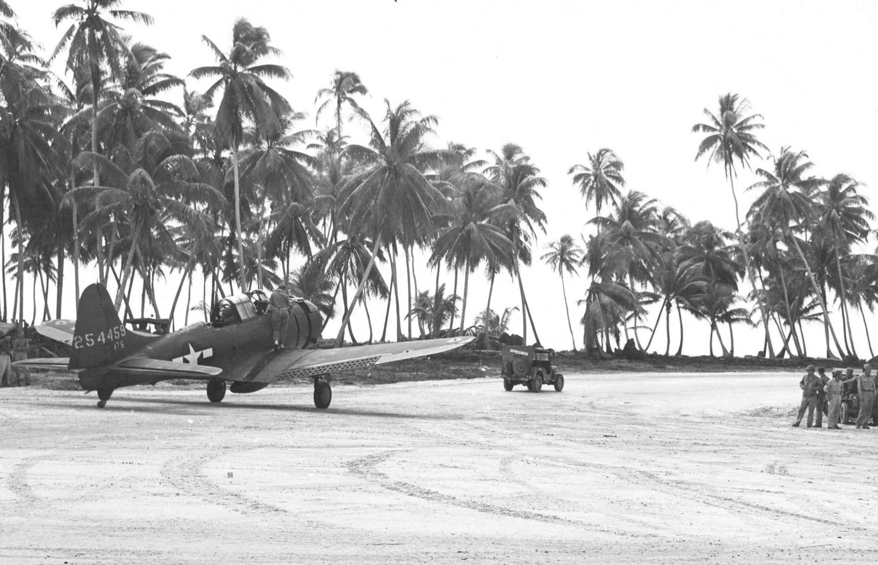 A USAAF Douglas A-24B-5-DT (S/N 42-54459) Banshee of the 531st Fighter Squadron taxis on 13 December 1943. This was the first A-24B to arrive on Makin in the Gilbert Island Chain.